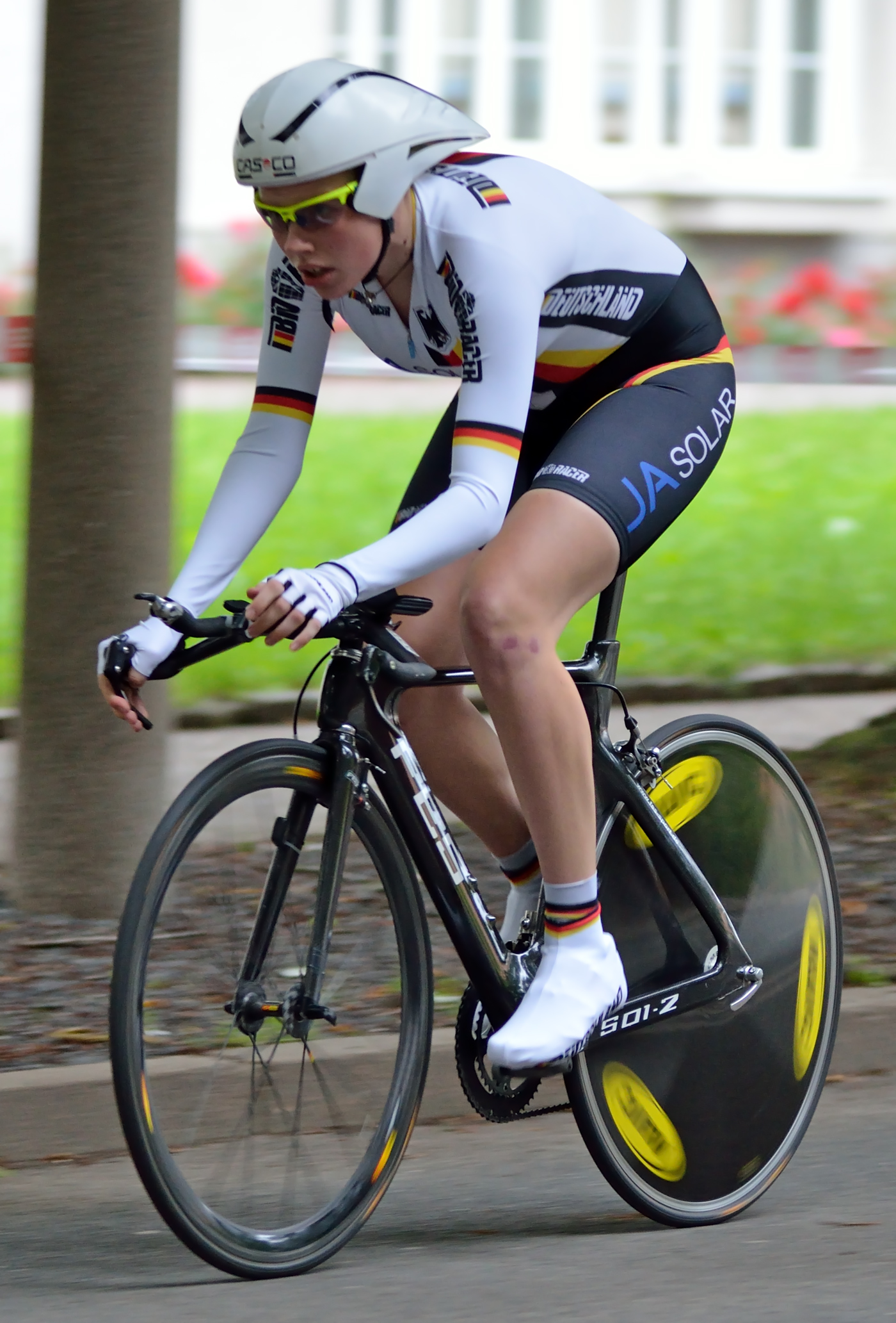 Mieke Kröger from the Nationalteam Deutschland during the Women's Tour of Thuringia 2012 in Zwickau, Germany.